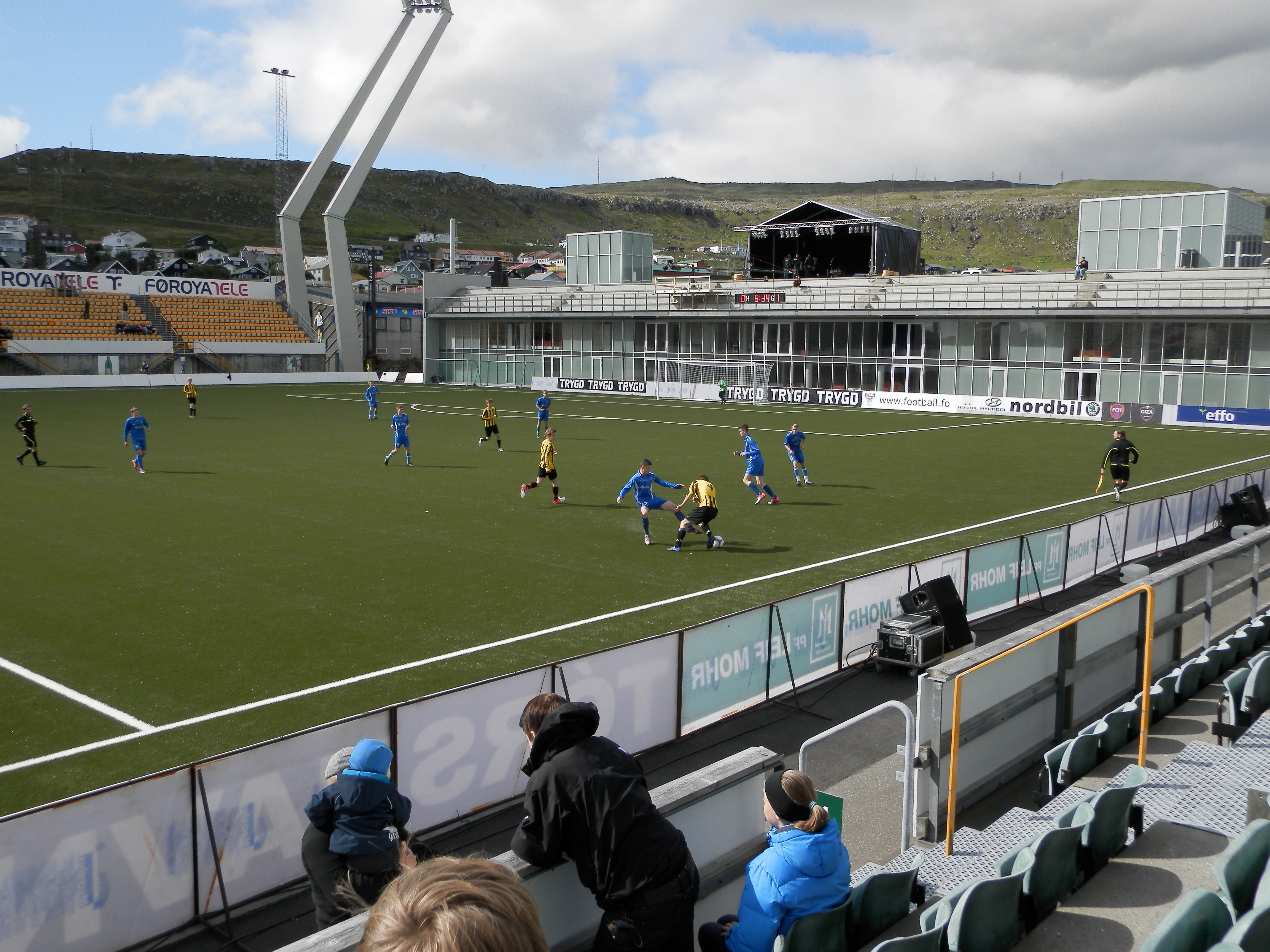 Tórsvøllur on 25 August 2012, Tórshavn, Faroe Islands. There were several finals held here on 24 and 25 August 2012. This is from the boys under 16's final which was between FC Suðuroy and NSÍ Runavík. NSÍ Runavík won 6-2. The women played just after and the men played a few hours later. Føroyskt: Steypafinalan um Blaðberasteypið hjá dreingjum U16 millum FC Suðuroy og NSÍ. Úrslitið gjørdist 2-6, hálvleiksstøðan var 2-0. Allar steypafinalurnar vóru hildnar á Tórsvølli vikuskiftið 24. og 25. august 2012.